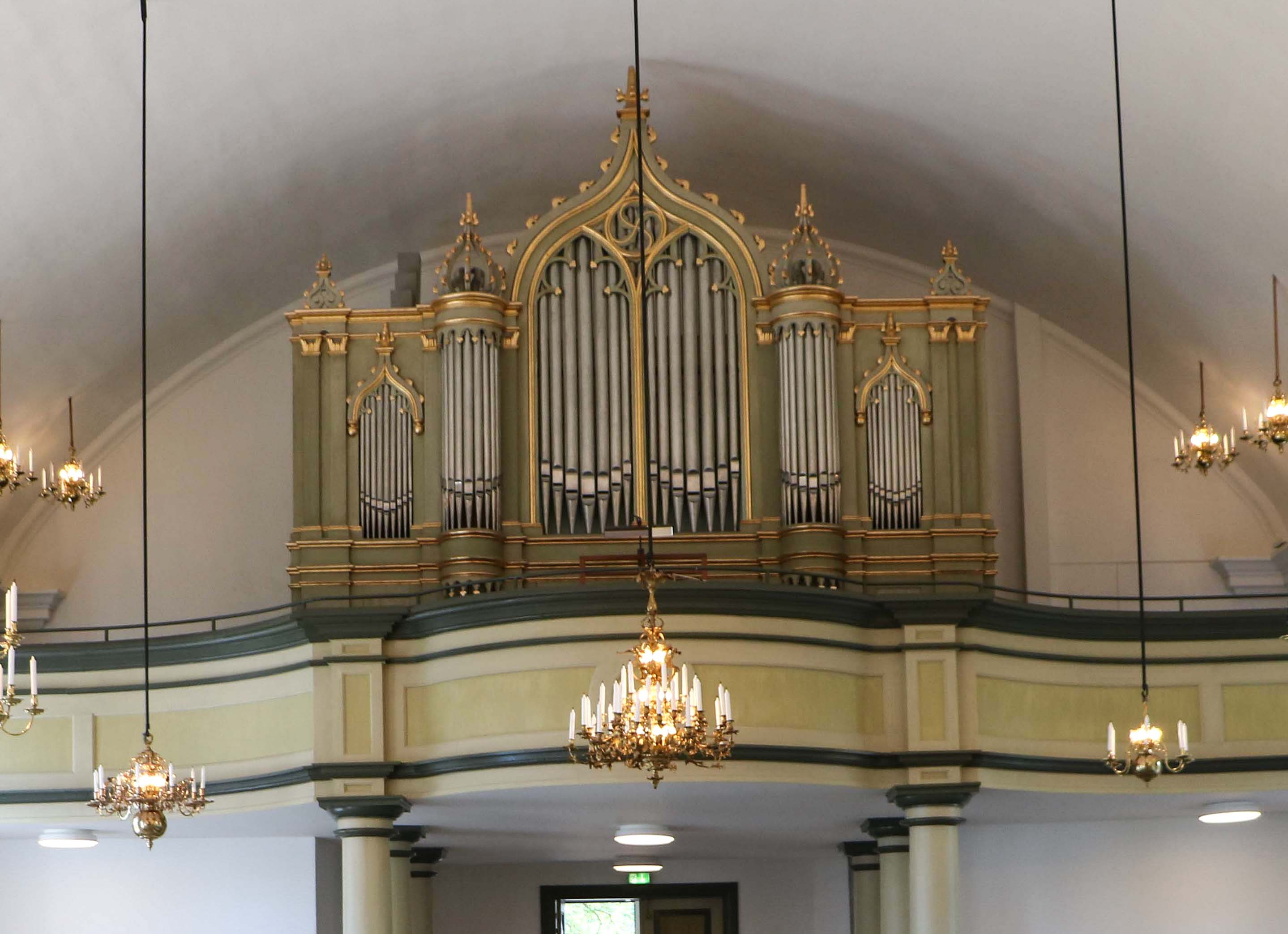 Lösen Church.The organ